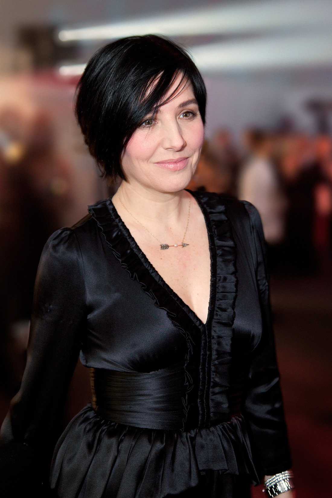 Sharleen Spiteri